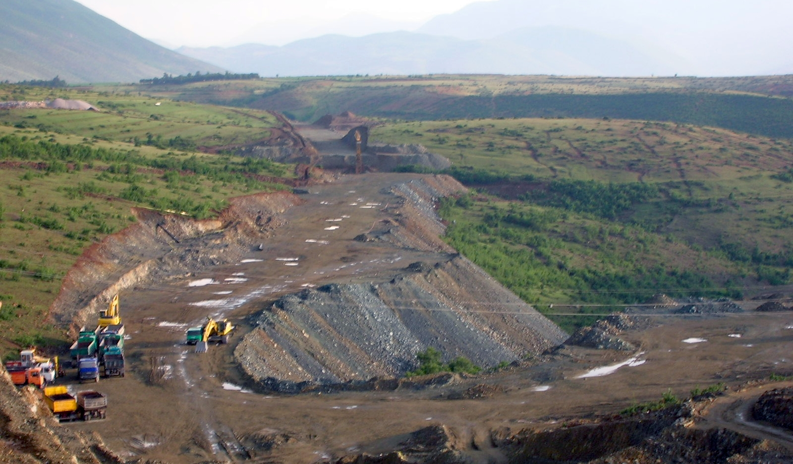 Construction work on the Durrës-Prishtinë Motorway between Kukës and Morinë in Albania. Photo taken near Kukës.